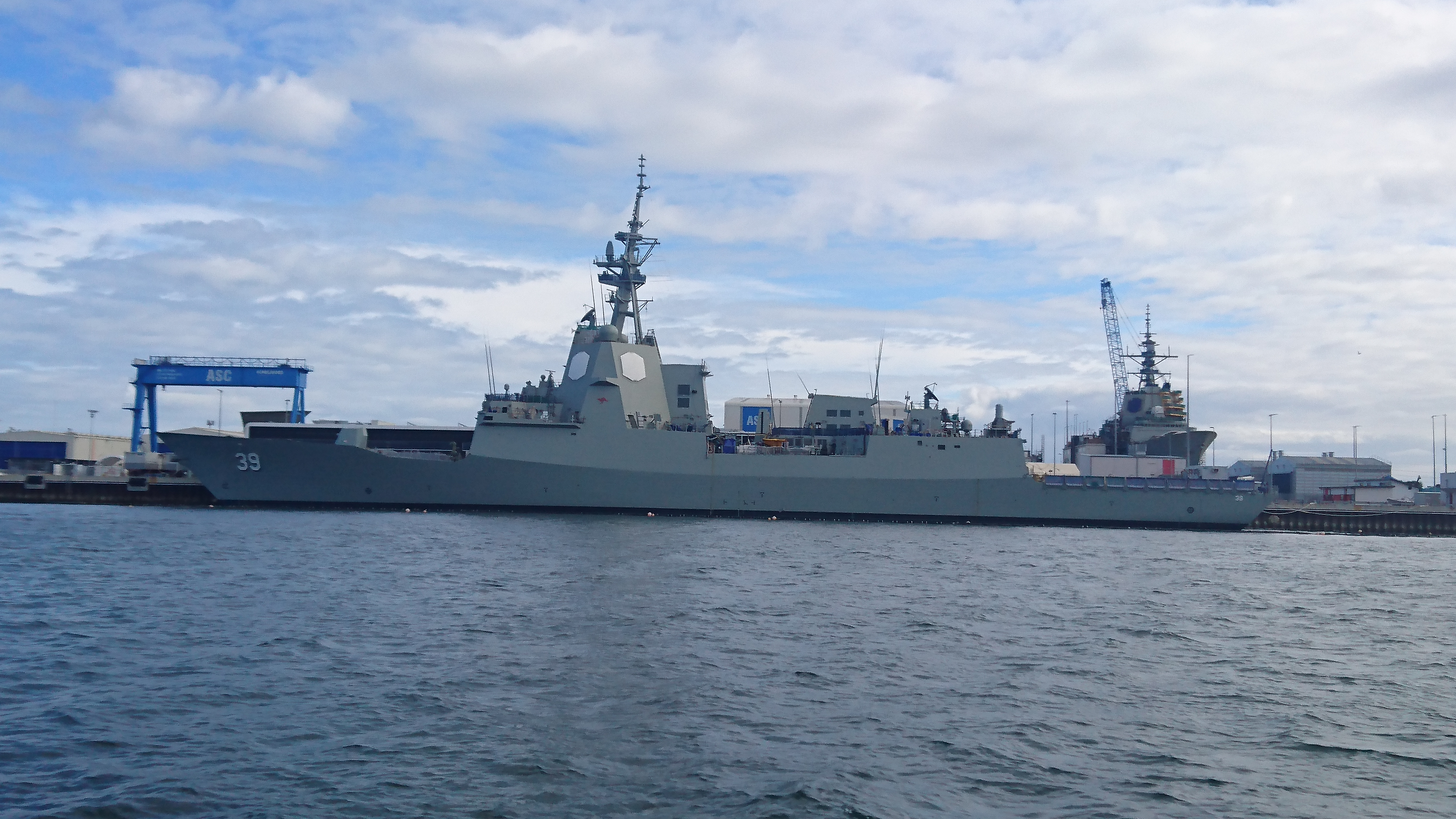 A completed HMAS Hobart alongside at the Submarine Corps. Taken in June 2016.